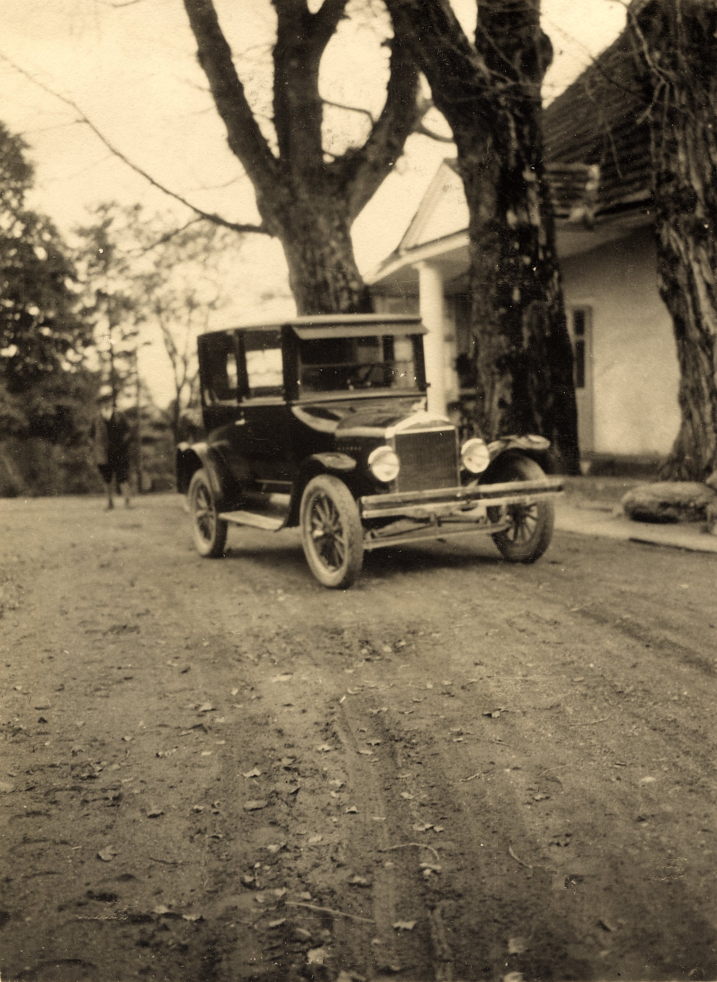 Ford Model T